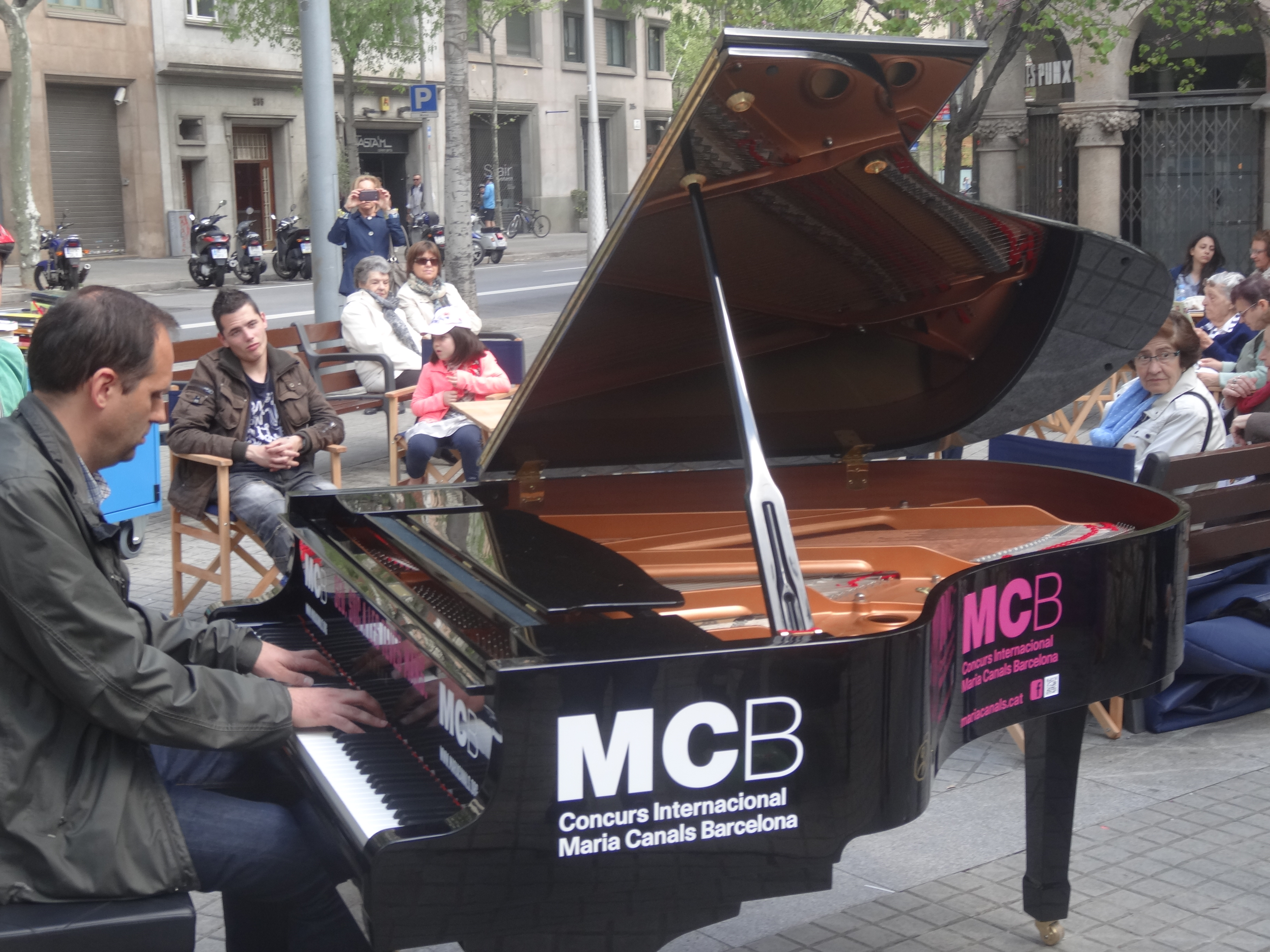 Avinguda Diagonal, Barcelona. Sunday, April 19th 2015.